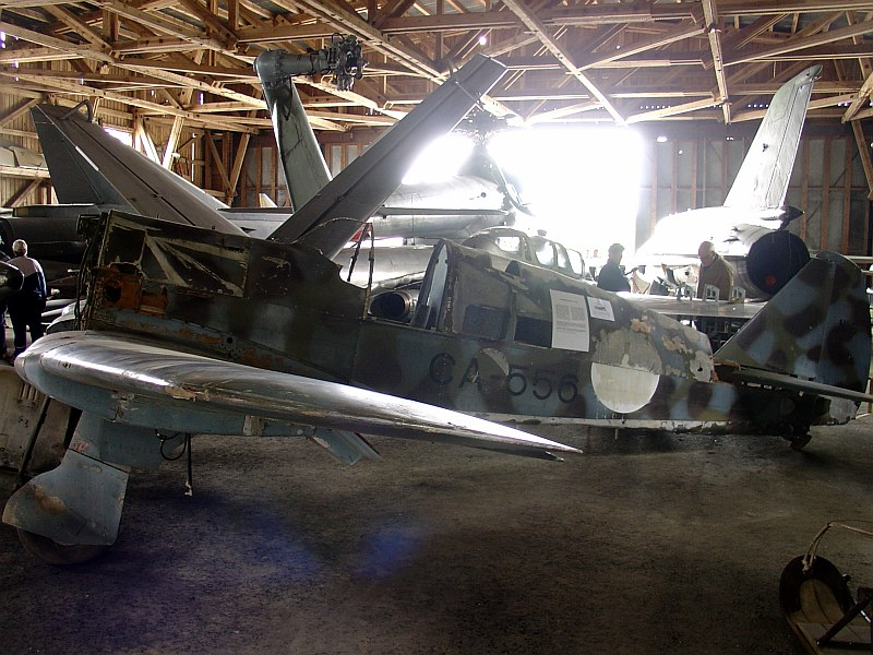 Former Finnish Air Force Caudron-Renault C.R. 714 at the Päijänne Tavastia Aviation Museum